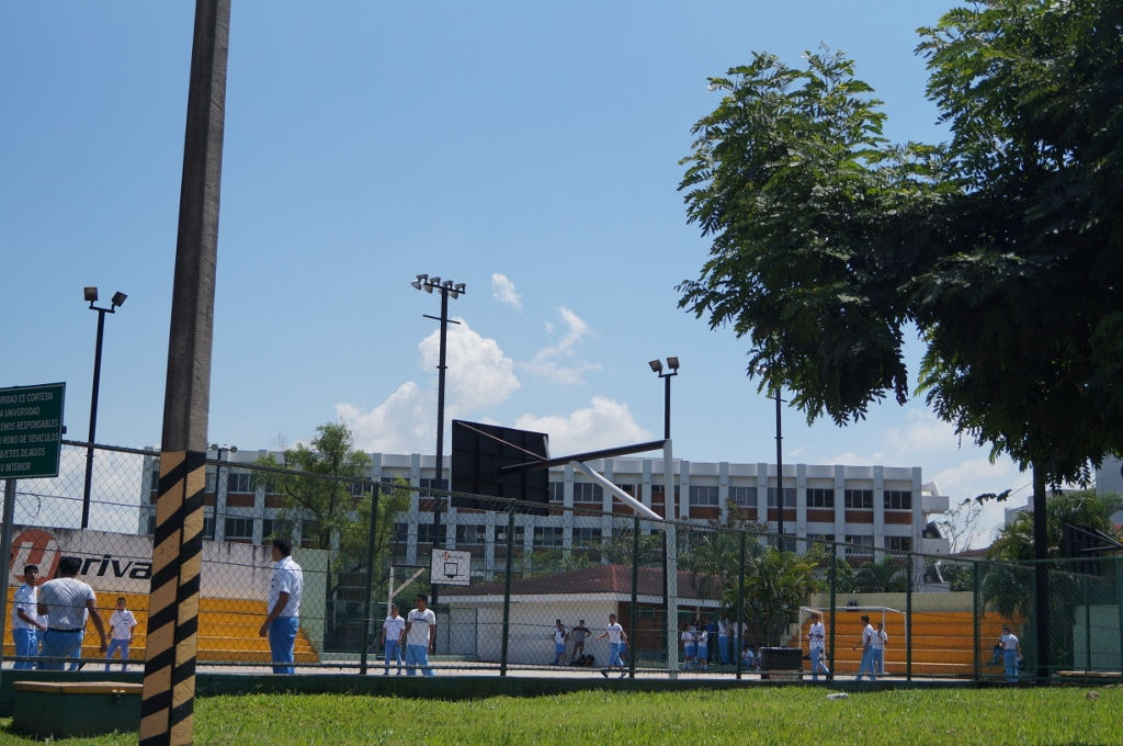 Students at the University of San Pedro Sula